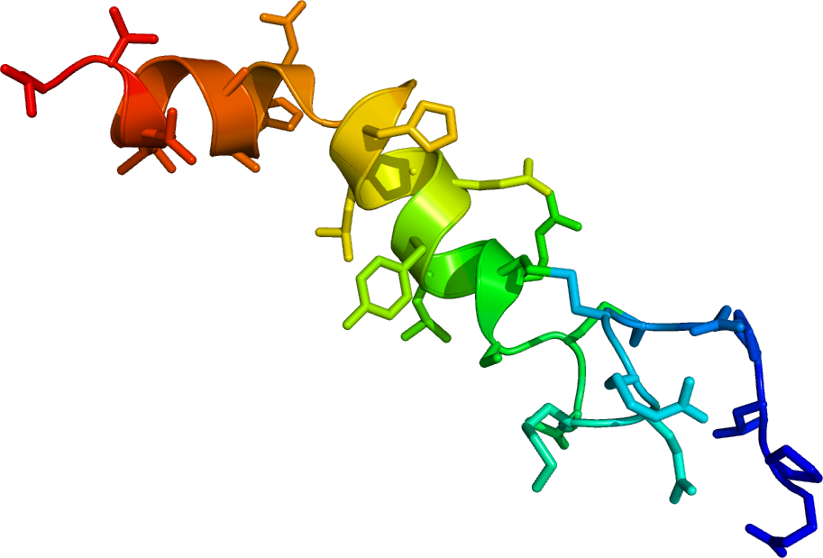 Solution phase NMR structure of orexin A based on the PDB coordinates 1R02. Created based on the 1R02 crystallographic coordinates and using PyMol.